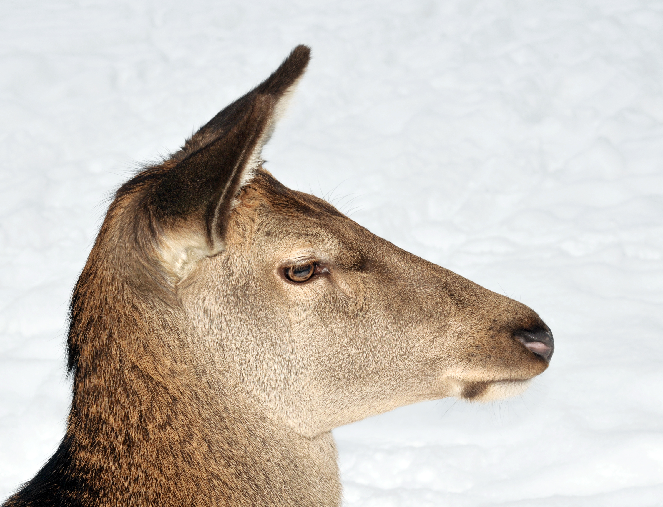 Red Deer (female) in the Wisentgehege Springe game park near Springe, Hanover, Germany